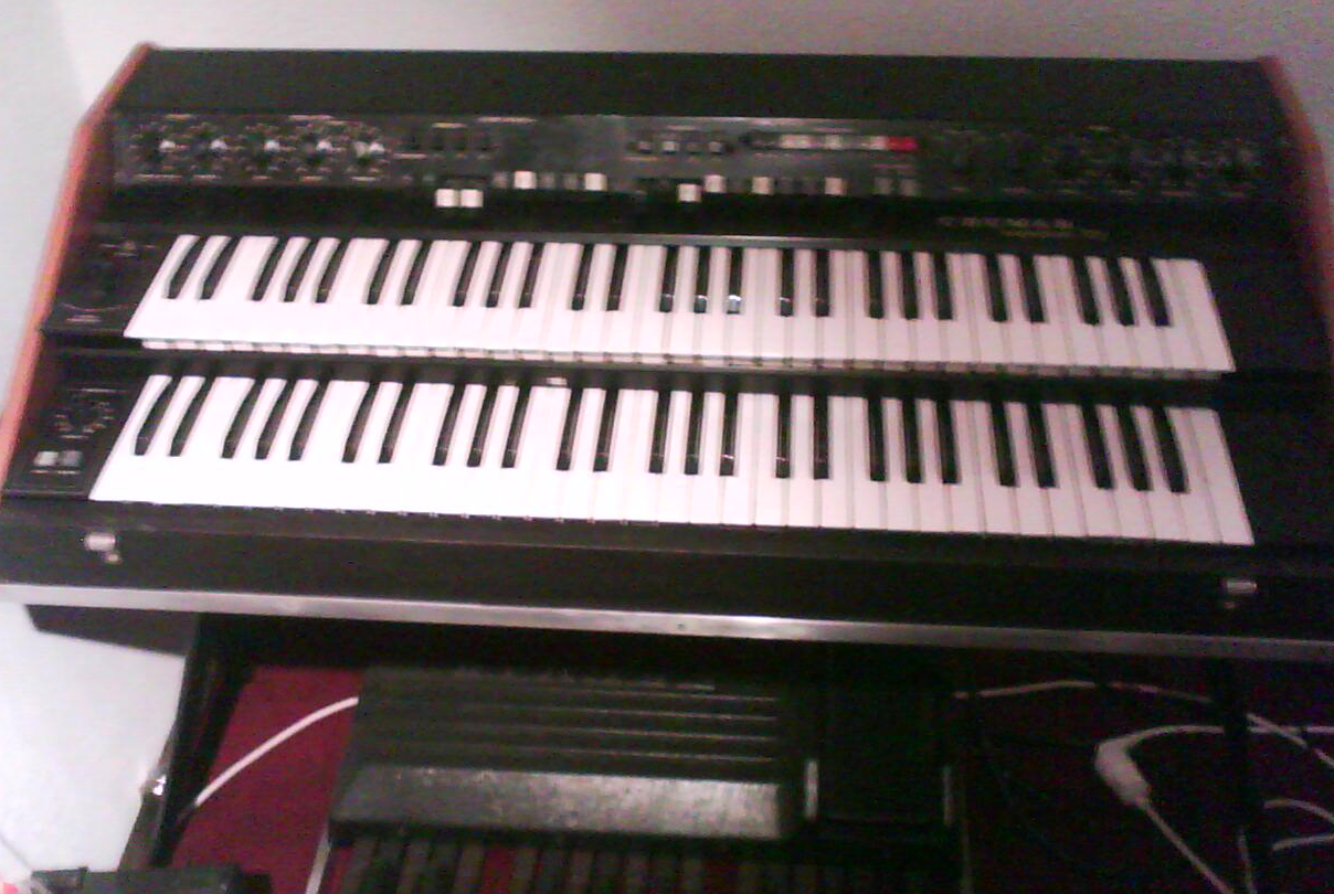 A Crumar "T2 Organizer" electronic organ.